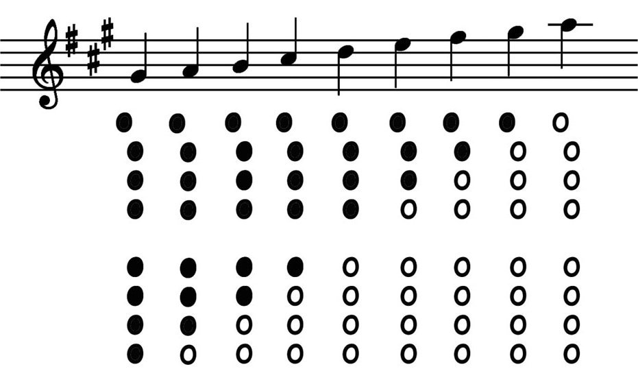 Fingering chart for the Baghèt (in A major)